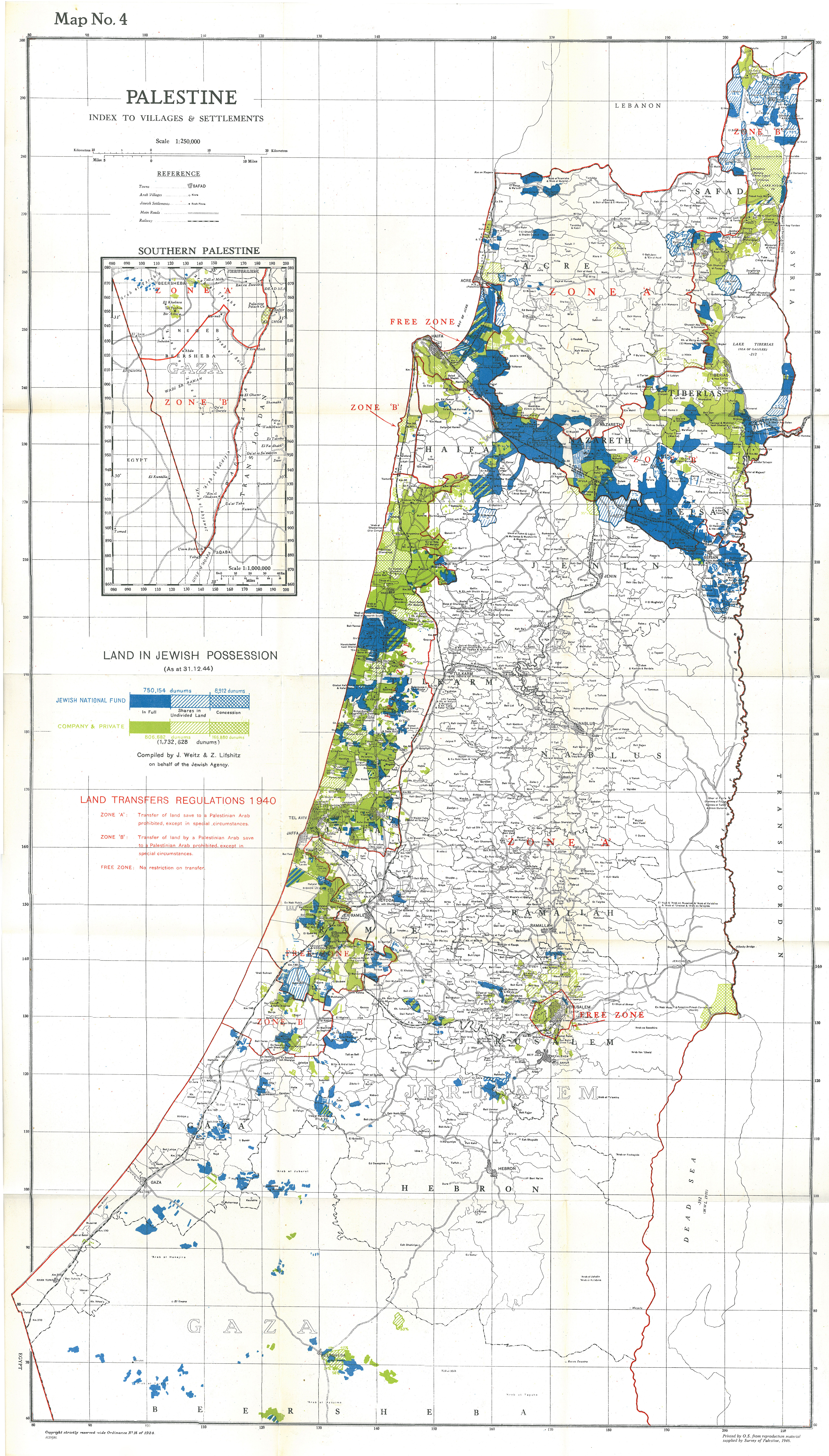 Palestine Index to Villages and Settlements, showing Land in Jewish Possession as at 31.12.44